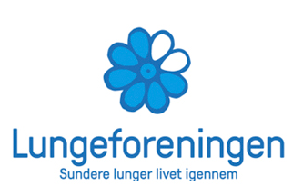 The logo of the lung association